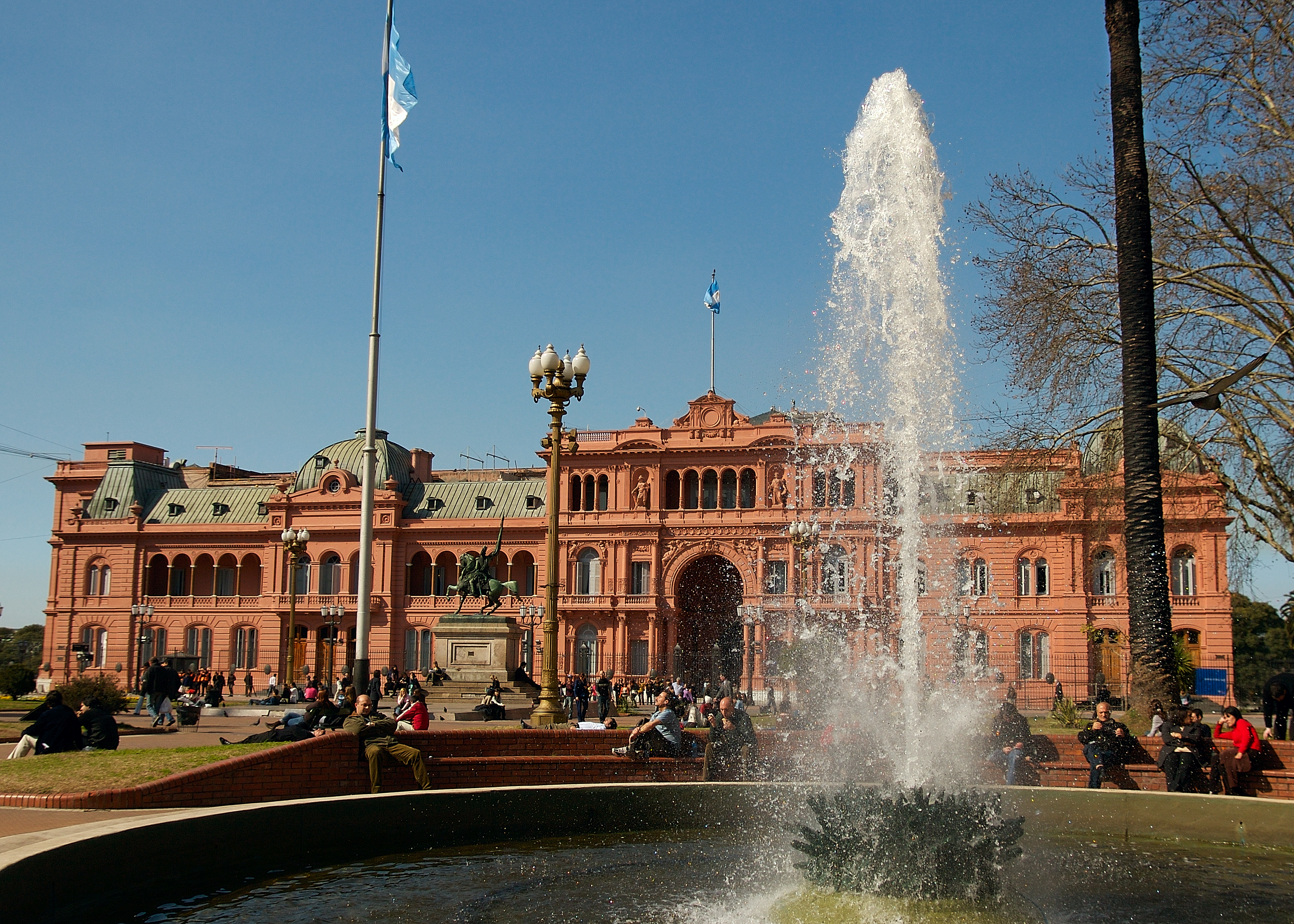 The Casa Rosada (Pink House), where the Office of Argentine President is.